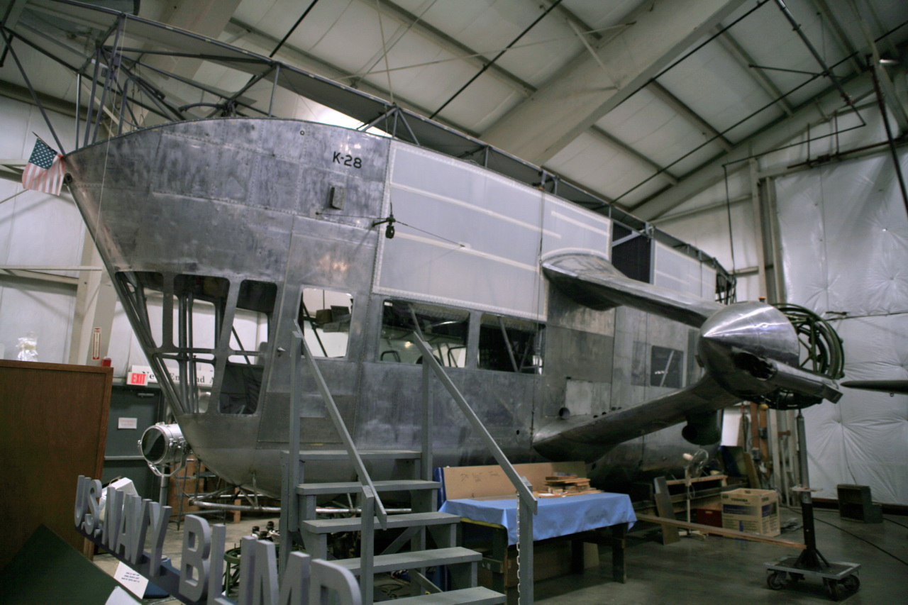 Goodyear ZNPK (K-28) Puritan - The museum's airship control car is one of 134 K-types built between 1938 and 1944 for the purpose of anti-submarine patrol and convoy export duty. Only 4 "K" ships were available for operations at the time of the Japanese attack on Pearl Harbor on December 7, 1941.